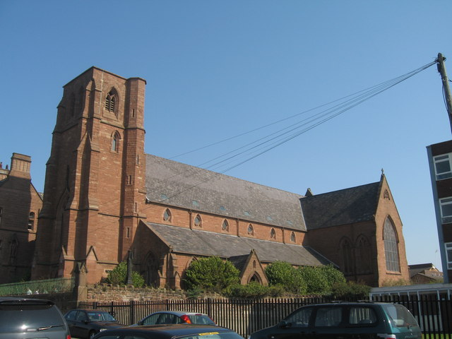 The Church of St. Anne, Overbury Street St. Anne's mission was begun in Sep 1843 in order to serve the Catholic population of the rapidly expanding Edge Hill area. One of two Benedictine missions in Liverpool, the priest's house was begun in 1841 and Father Maurus Magison said Mass in the house until the church was built. The Church of St. Anne, designed by Charles Hansom, was opened on 4 August 1846.